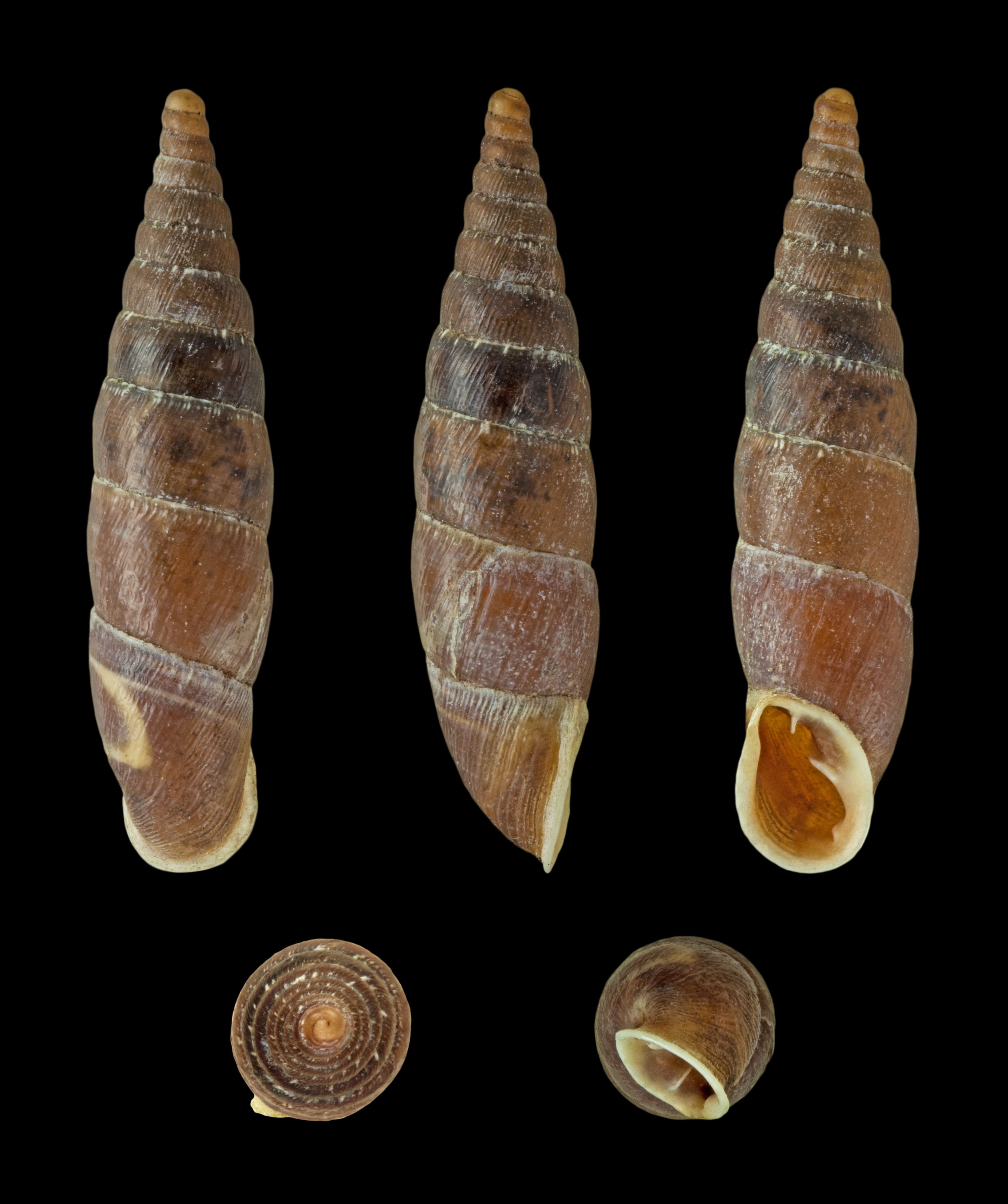 Charpentieria itala nigra (Issel, 1866); Length 1.9 cm; Originating from Riva del Garda, Italy; Shell of own collection, therefore not geocoded.